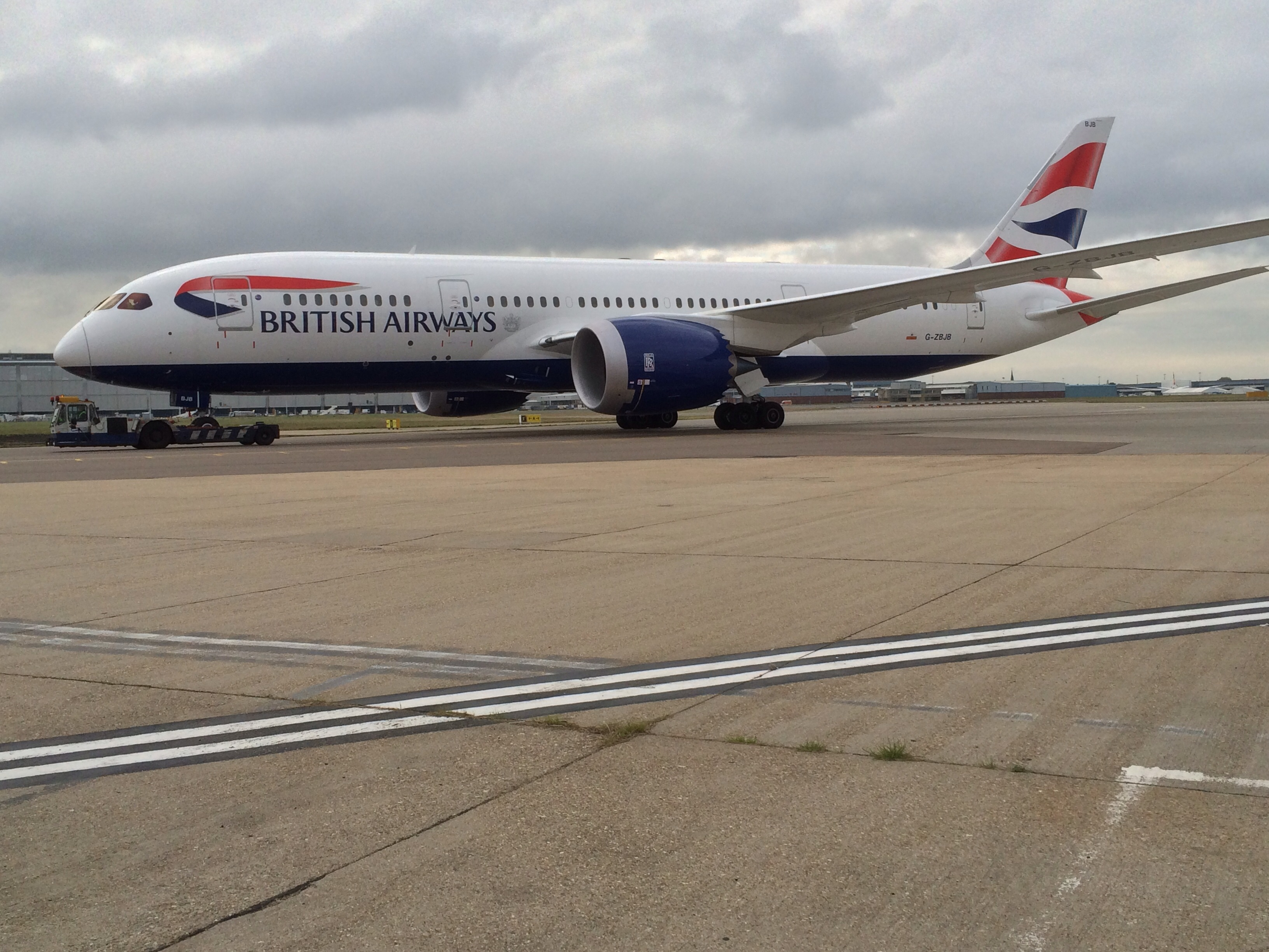 At London Heathrow Airport